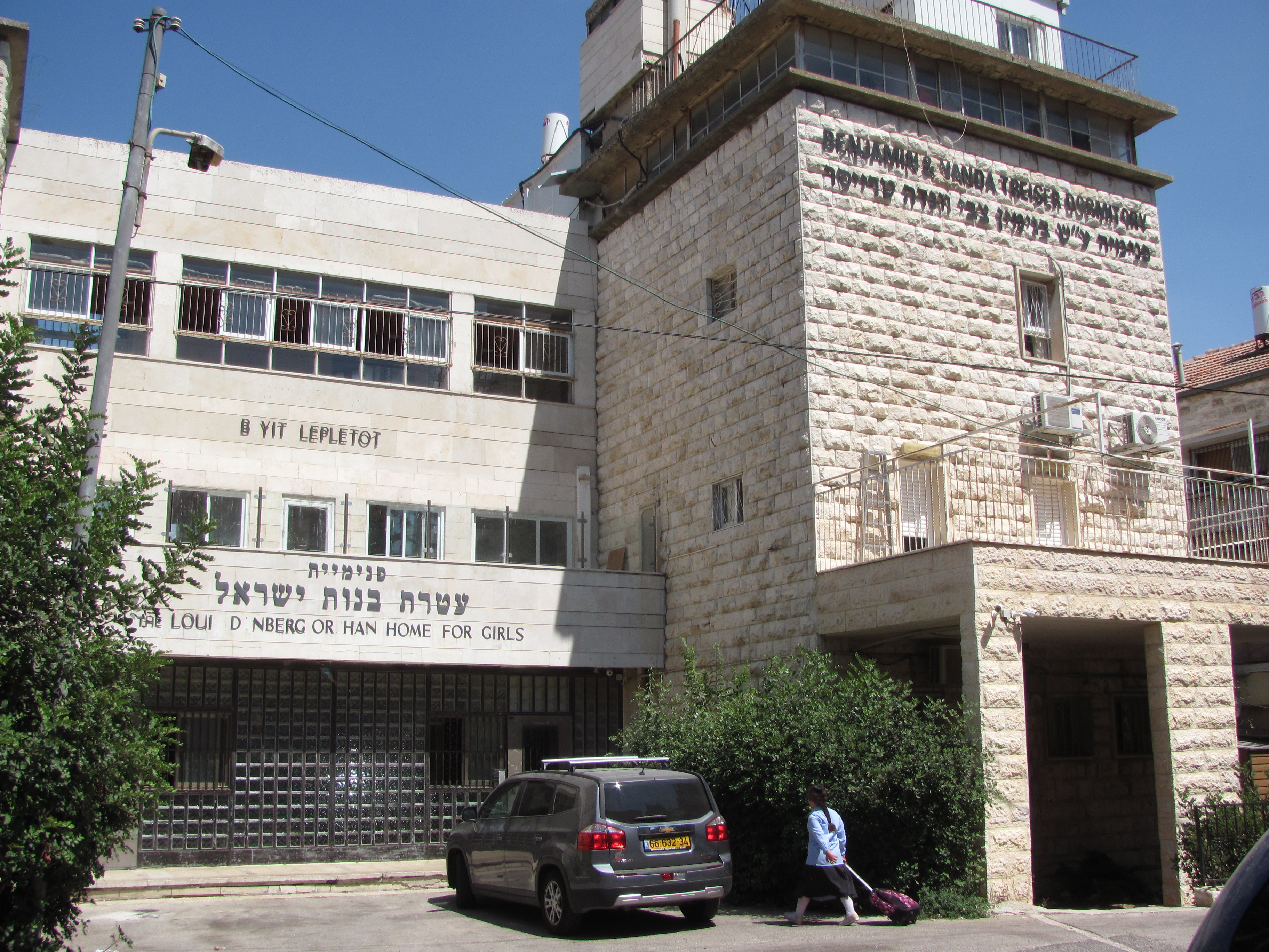 Bayit Lepletot dormitories in Mea Shearim, Jerusalem, Mevo Avraham Rosental, Bayit Lepletot (which means a home for refugees) Girls Orphanage